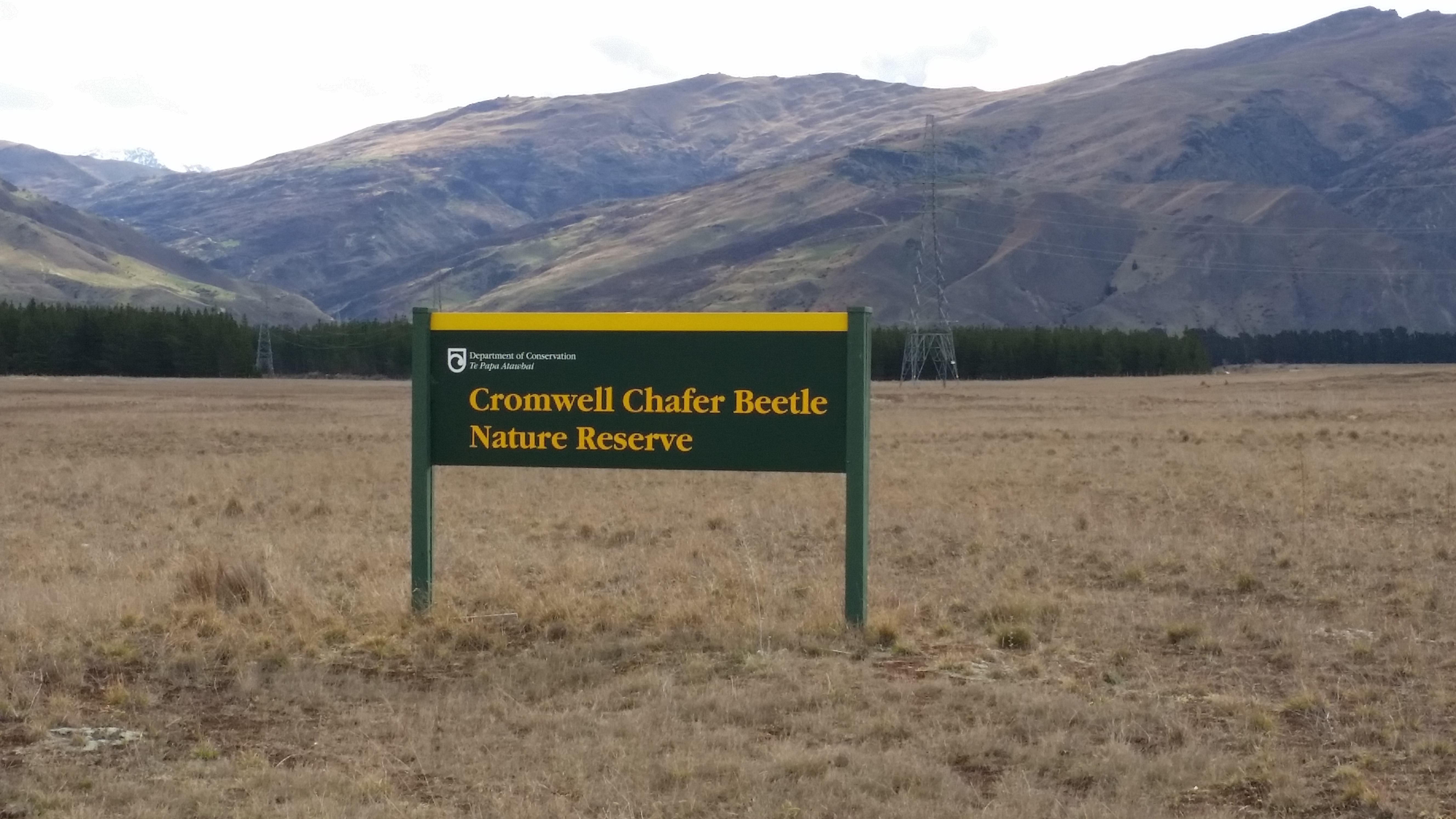 The Department of Conservation Cromwell chafer beetle sign